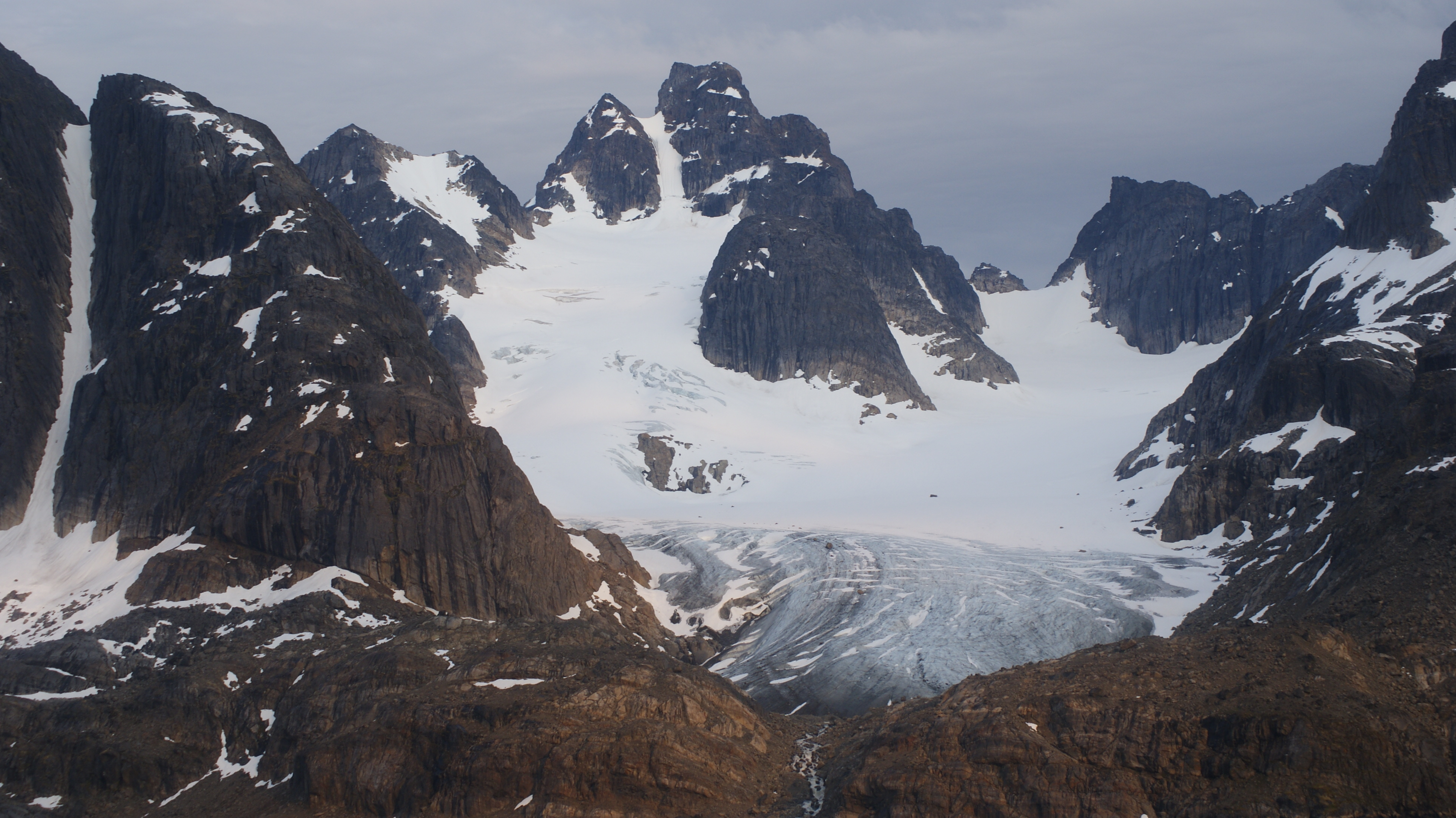 Sermersut Island (Hamborgerland), an island on the Davis Strait coast of western Greenland.